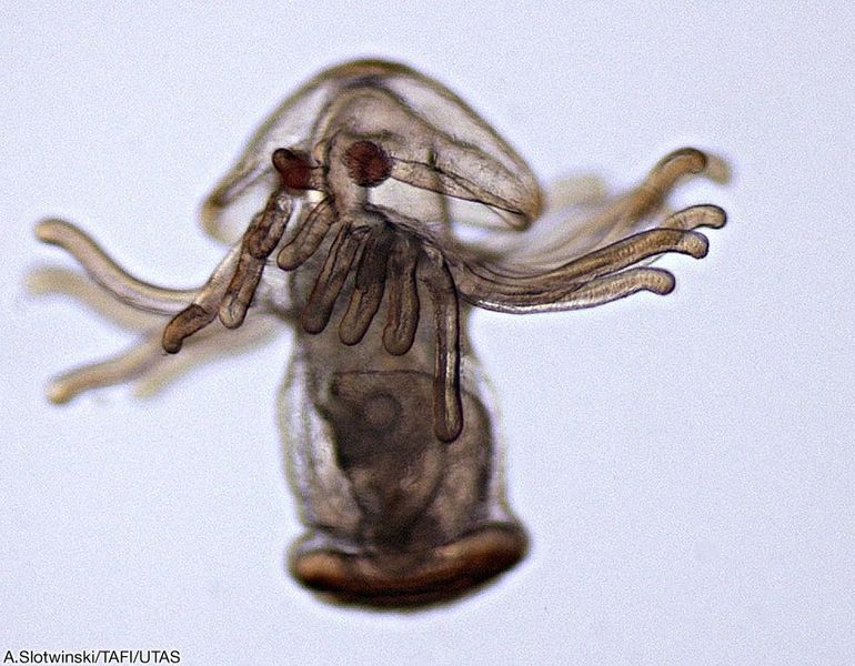 Zooplankton - Actinotroch larva of a phoronid worm Image taken by Anita Slotwinski, Tasmanian Aquaculture and Fisheries Institute, University of Tasmania, Australia For more information on the re-use of this image please read the information on this following page